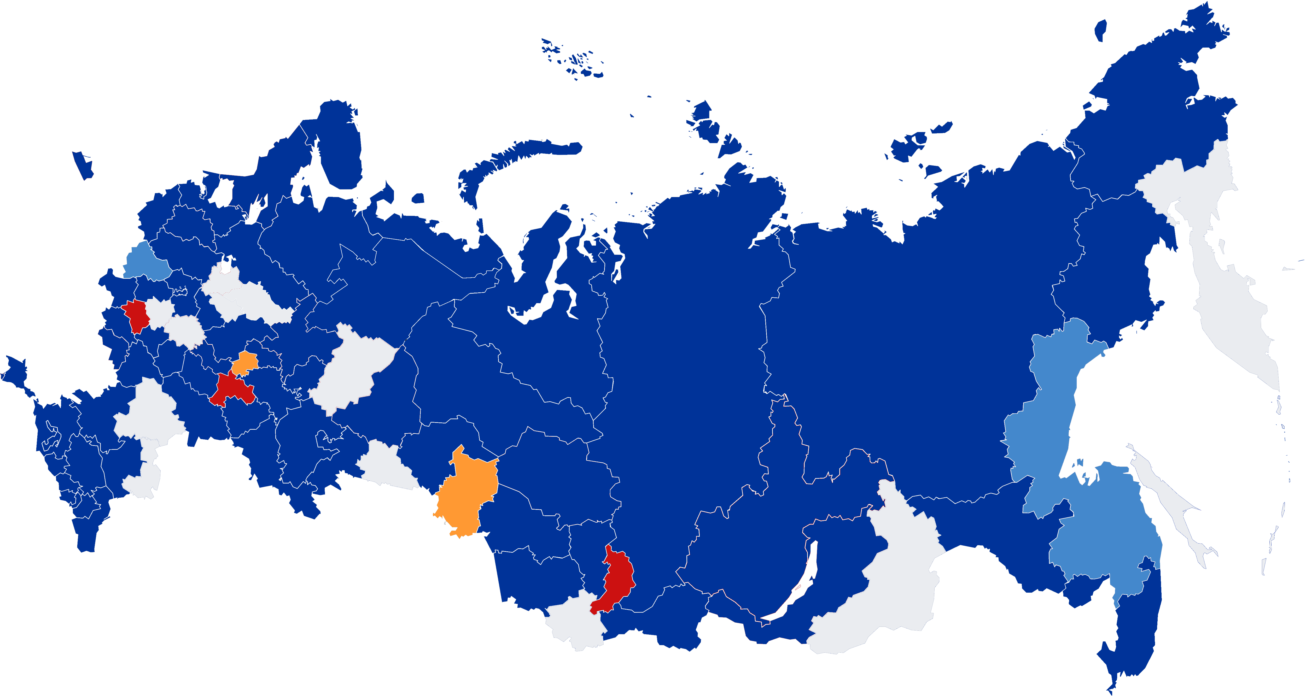 Map of Russian Governors by party